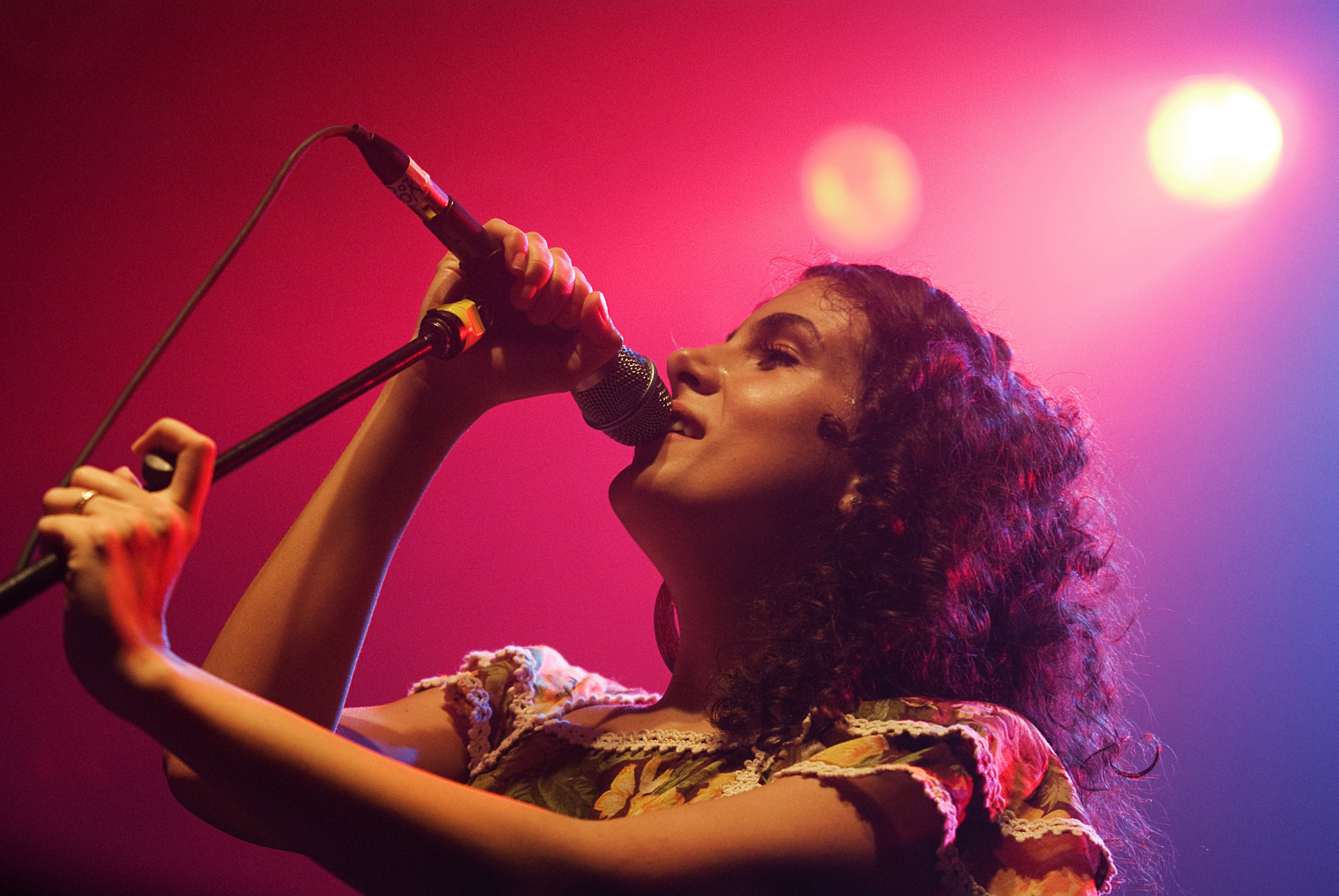 CéU live in São Paulo, Brazil, at Aug 13, 2009